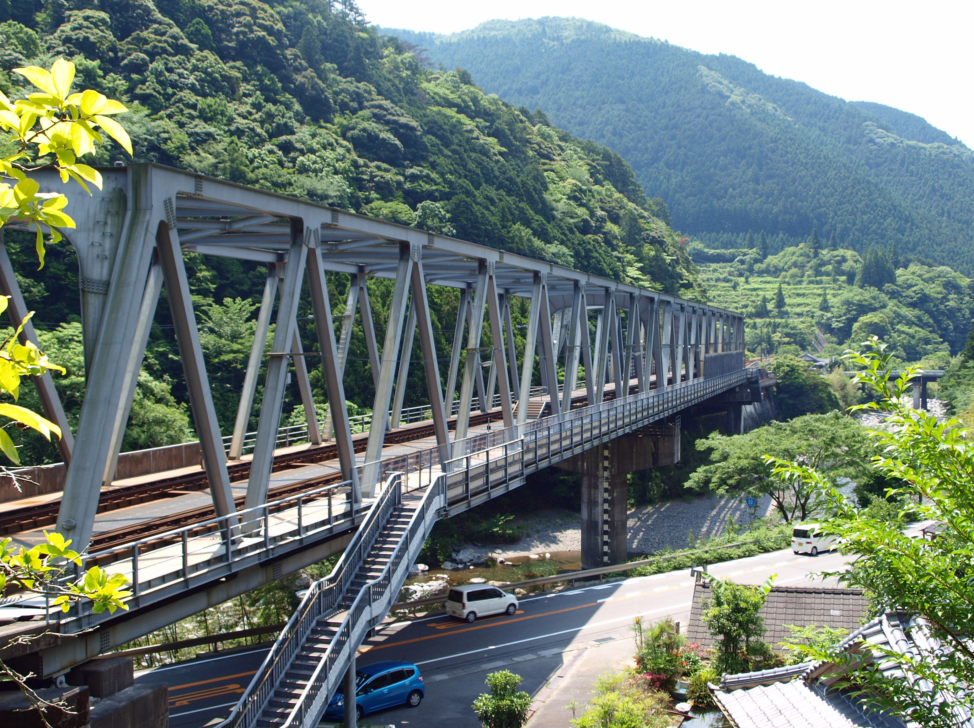 Tosa-Kitagawa station, Dosan-line, JR Shikoku, Japan